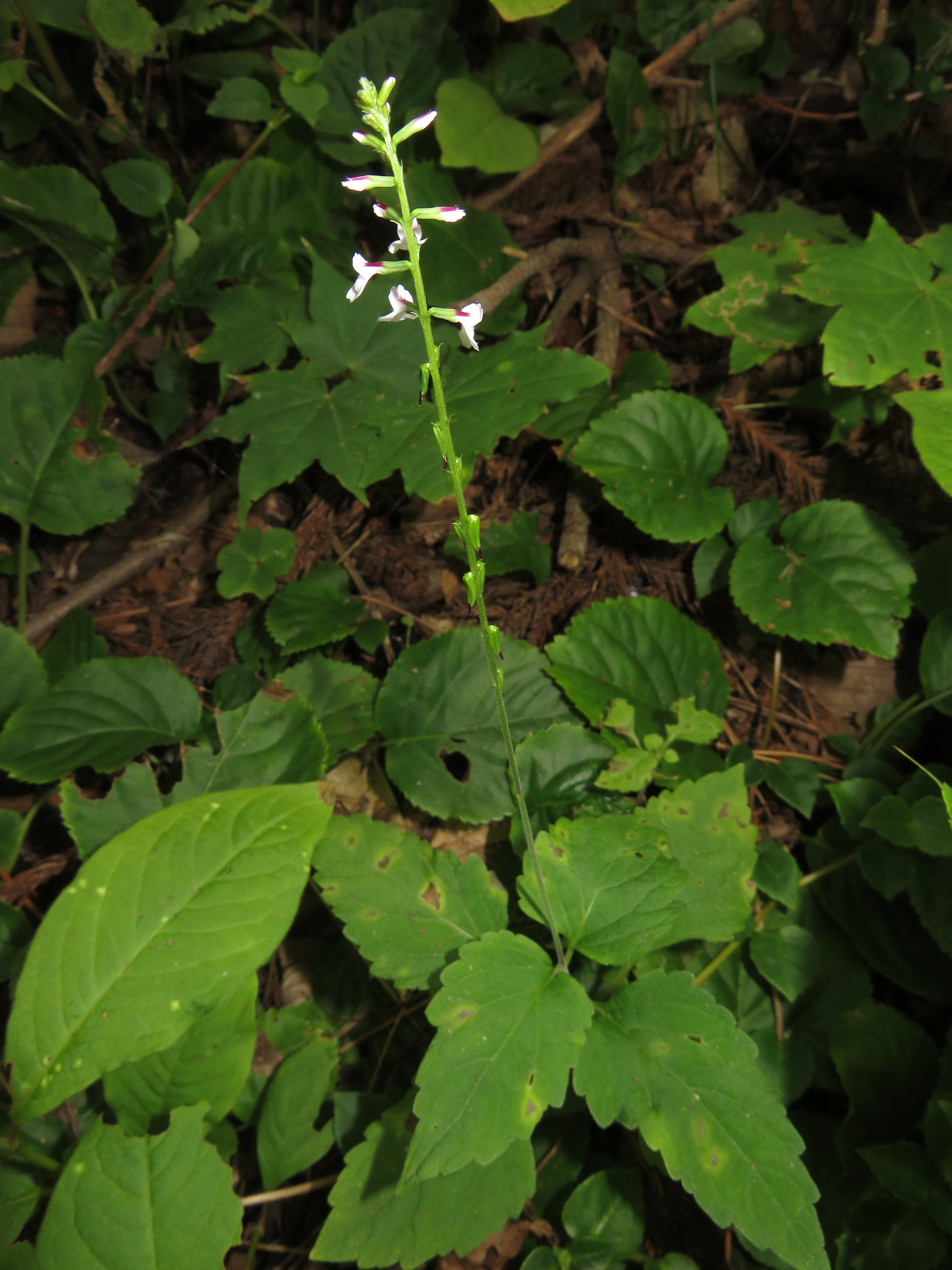 Phryma leptostachya var. asiatica, Tsugaru area, Aomori pref., Japan